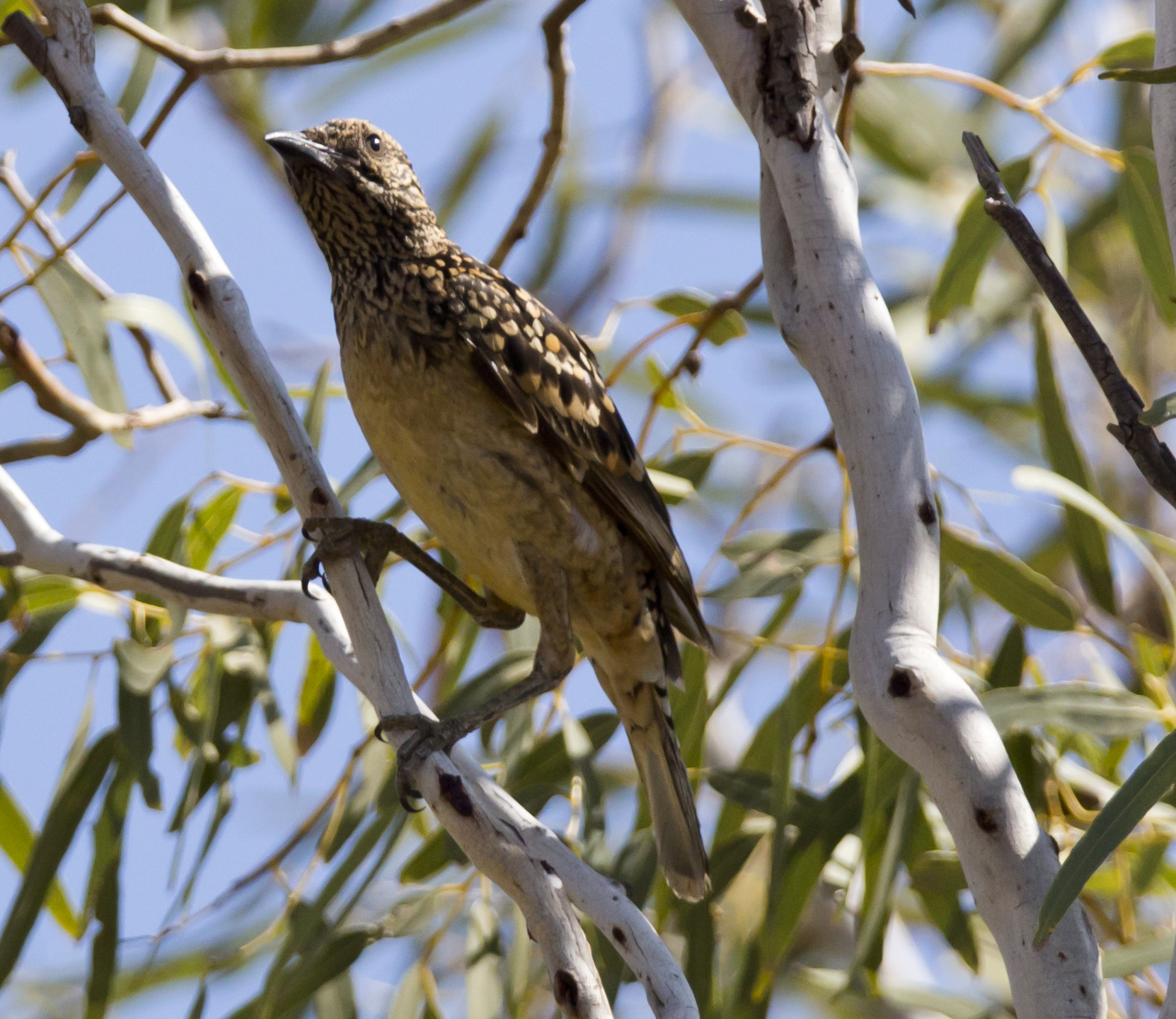 This is a first for me. I think its our only bower bird over this way